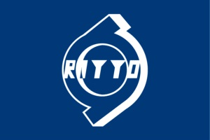 Flag of Ritto Shiga